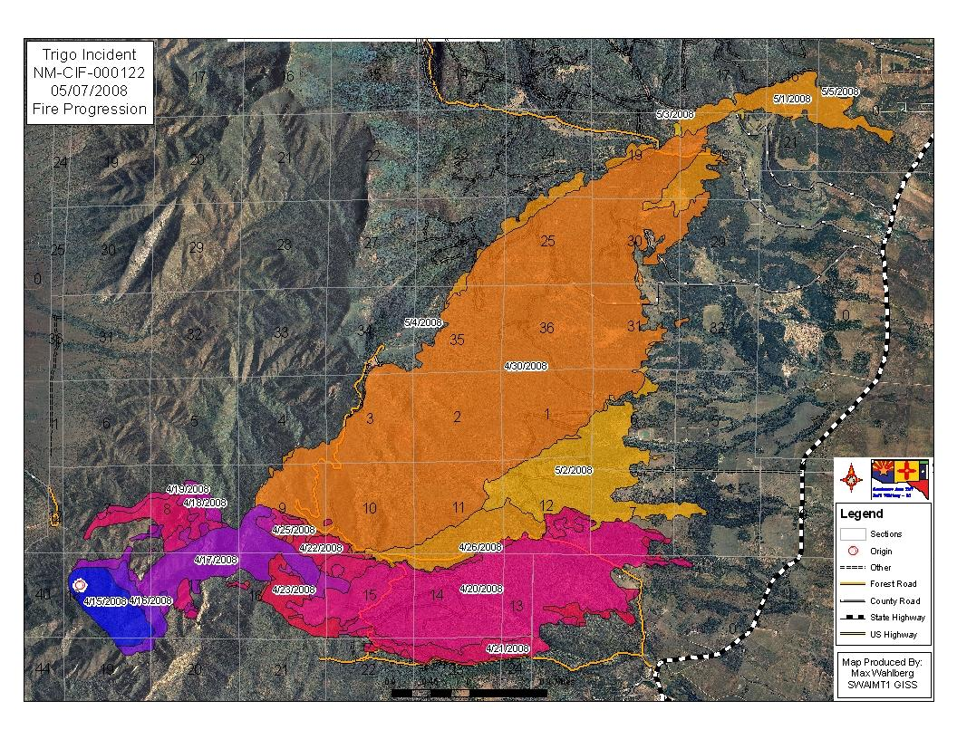 Map of the Trigo Fire in New Mexico showing the area burned day-by-day from 15 April 2008 through 7 May 2008